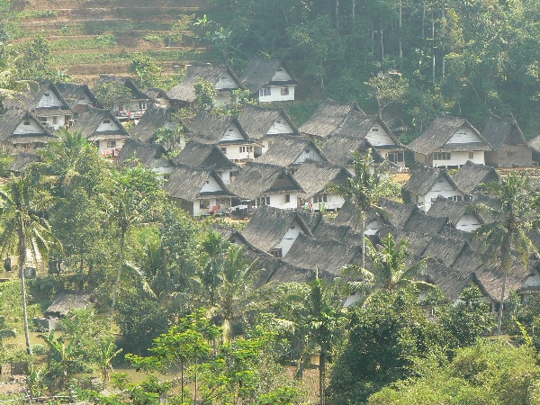 Naga Village, traditional Sundanese community in Tasikmalaya, West Jawa, Indonesia.